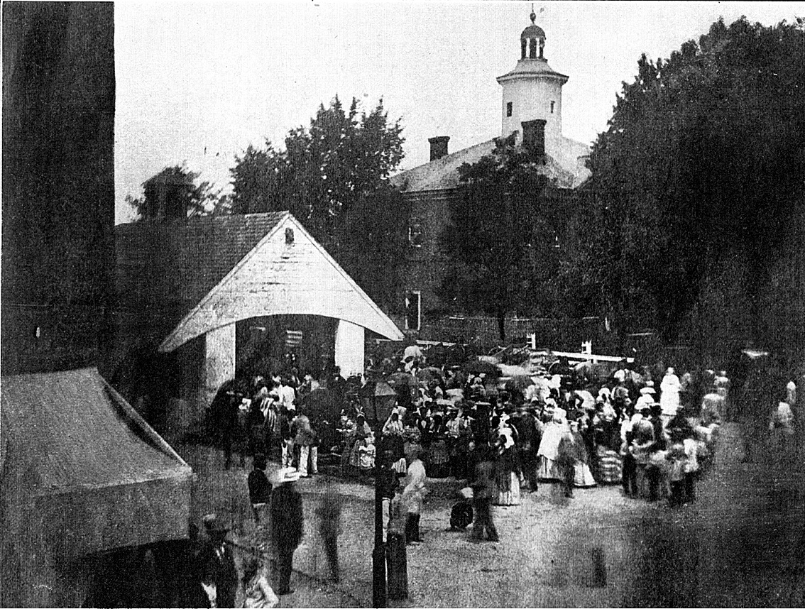 Image of a market day in Easton, Maryland. This image is of the Market House in the town square of Easton. Market Days were held every week, and farmers brought produce, craftsmen brought goods to sell, and, yes, sometimes slave sales were held there. This image is of the outside of the building. It is impossible to see the inside, and to know what is being sold. While it may be more exciting to believe this is a slave sale, the facts are that no one can determine from the image what is being sold in the building.